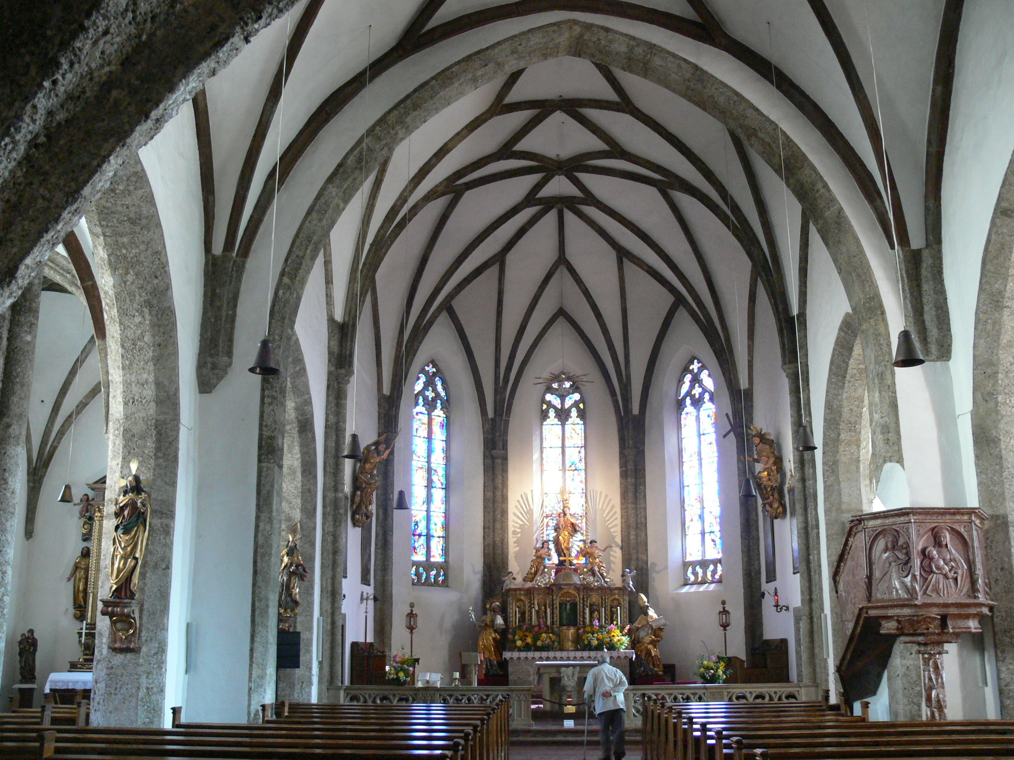 Kuchl parish church ( Salzburg ). Interior.